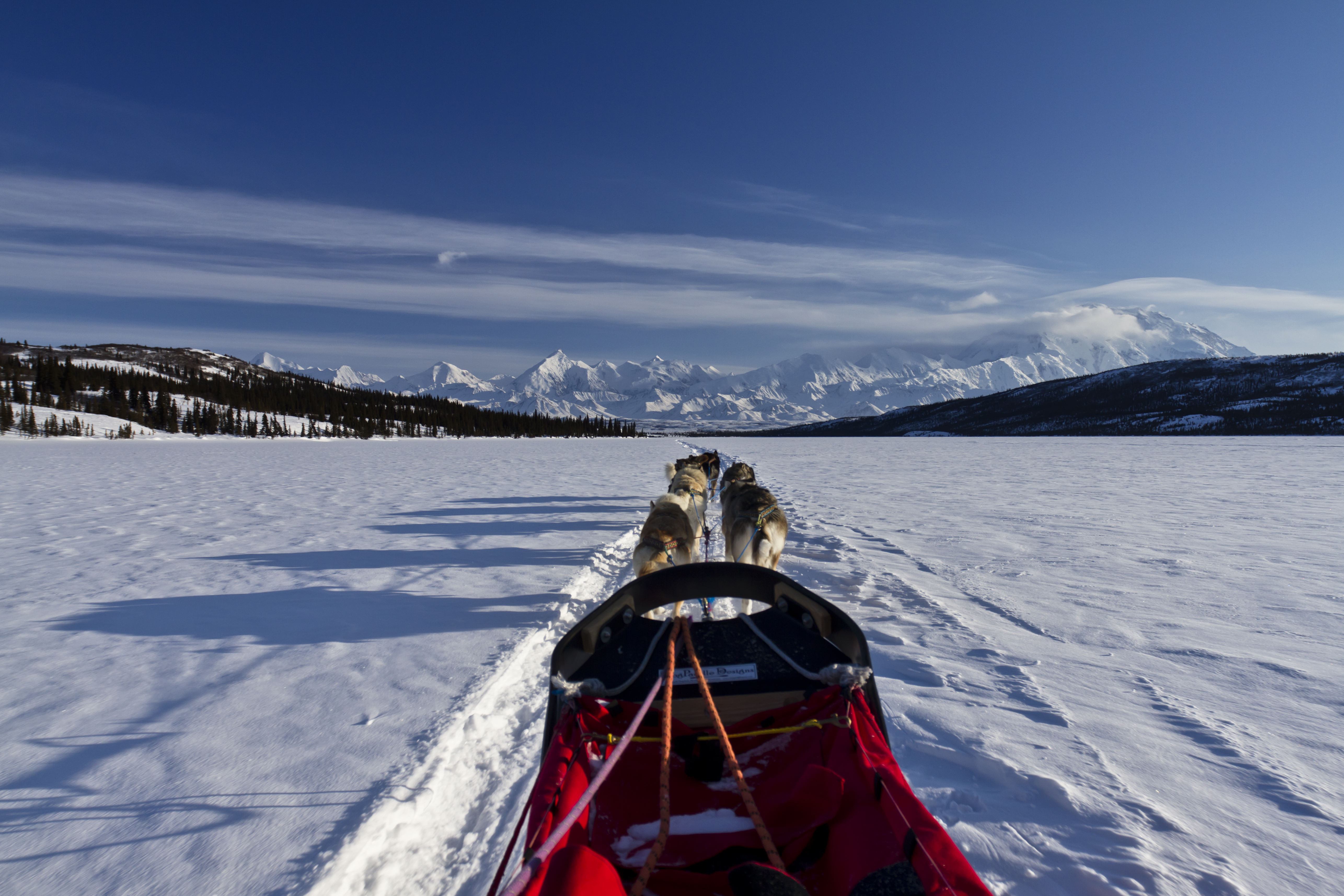 (Nps photo / Jacob w. Frank)